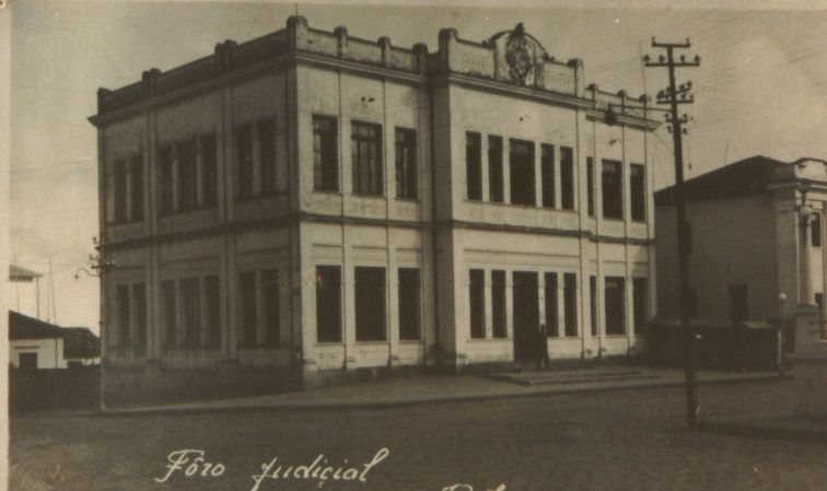 Judicial Court - "Forum" - of Barbacena, an old brazilian village.